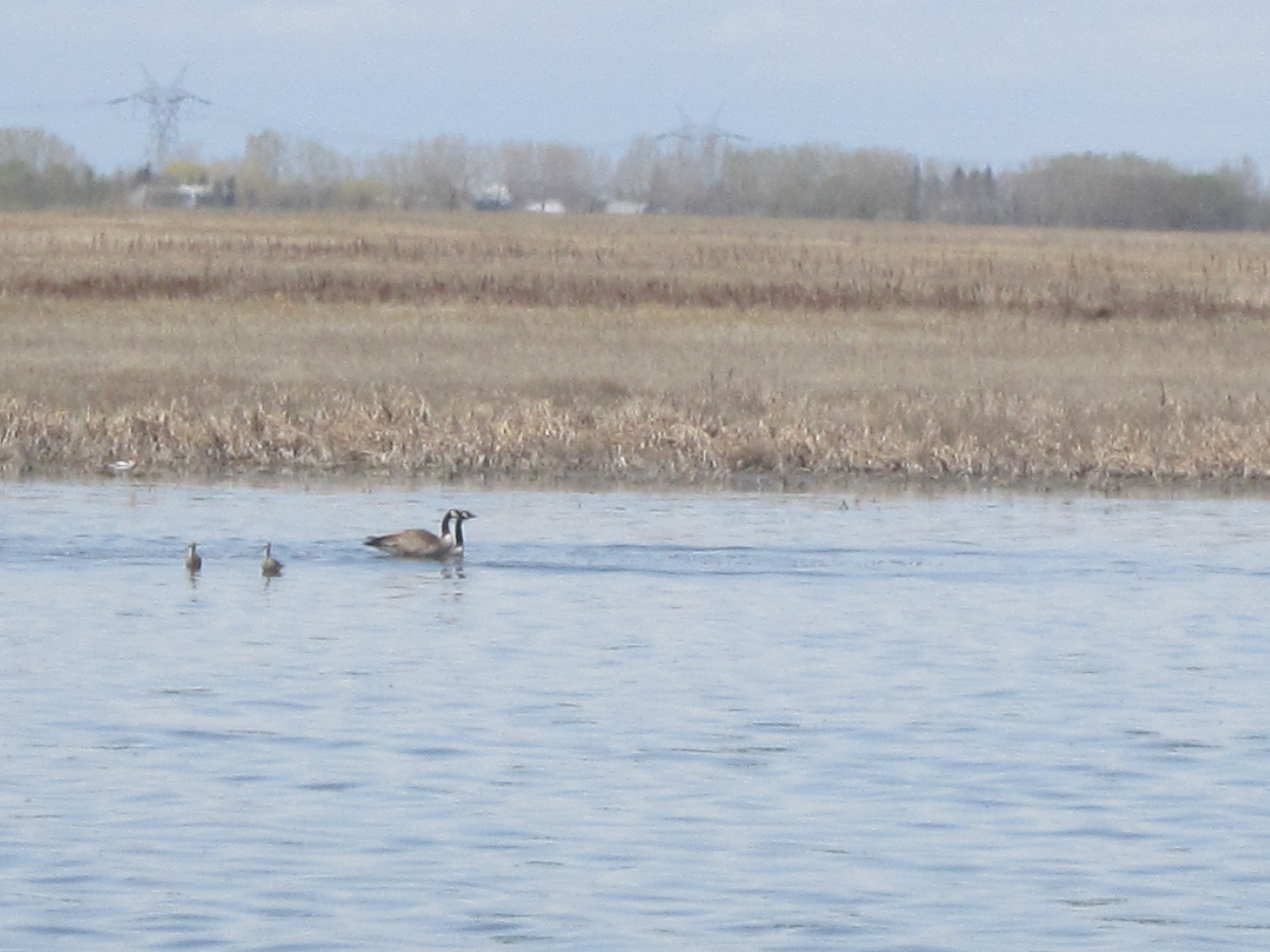 A picture taken at Weed Lake in March